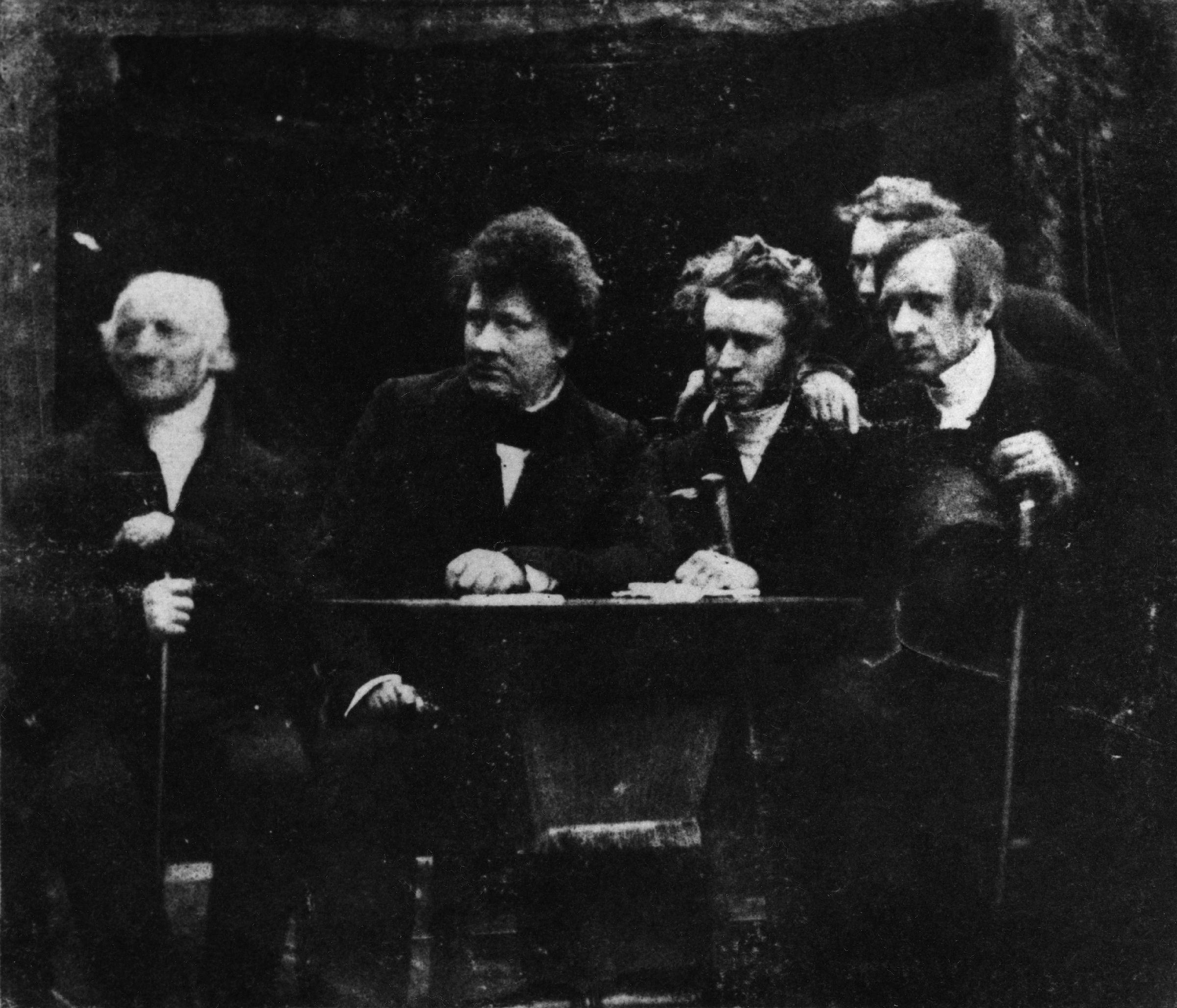 Study for...the first General Assembly of the Free Church, given to the National Portrait Gallery, London in 1973. All images in this batch have been confirmed as author died before 1939 according to the official death date listed by the NPG.